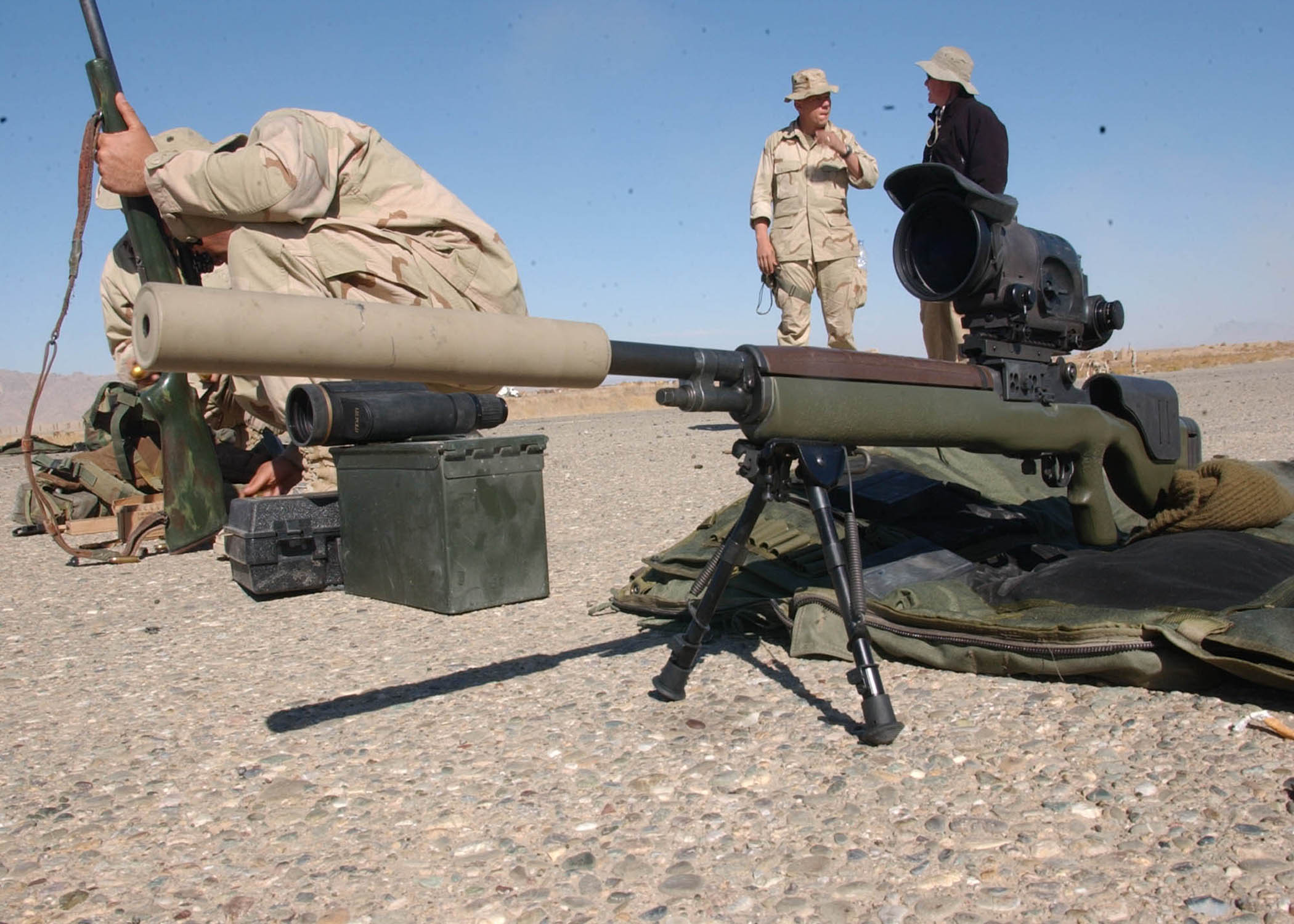 U.S. Marines of the 26th MEU (SOC) getting some range time with a M14 DMR in Kandahar, Afghanistan. The DMR is fitted with an OPS Inc. 12th Model 7.62x51 mm muzzle brake suppressor and a VARO (now Litton) AN/PVS-10 SNS (Sniper Night Sight) 8.5x day/night optic.